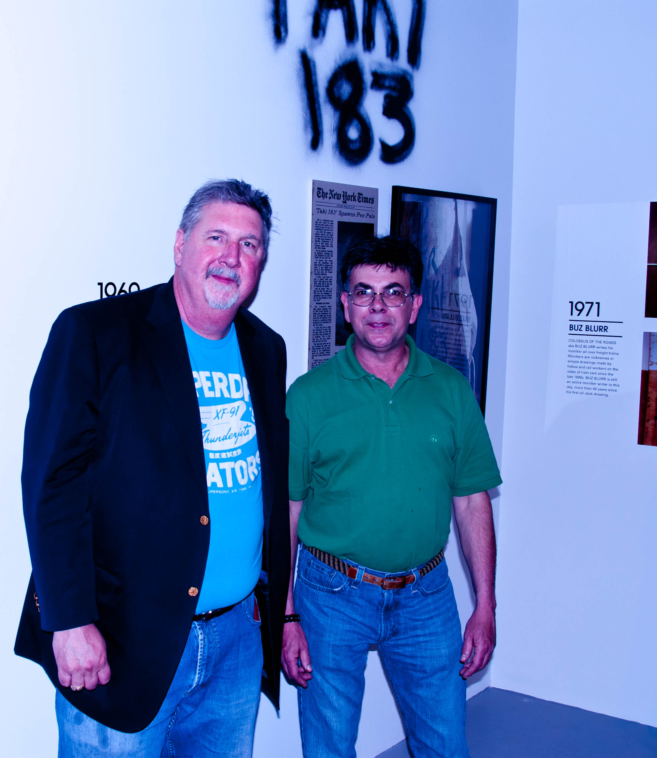 Graffiti artist Taki 183 (right) at a gallery exhibition.